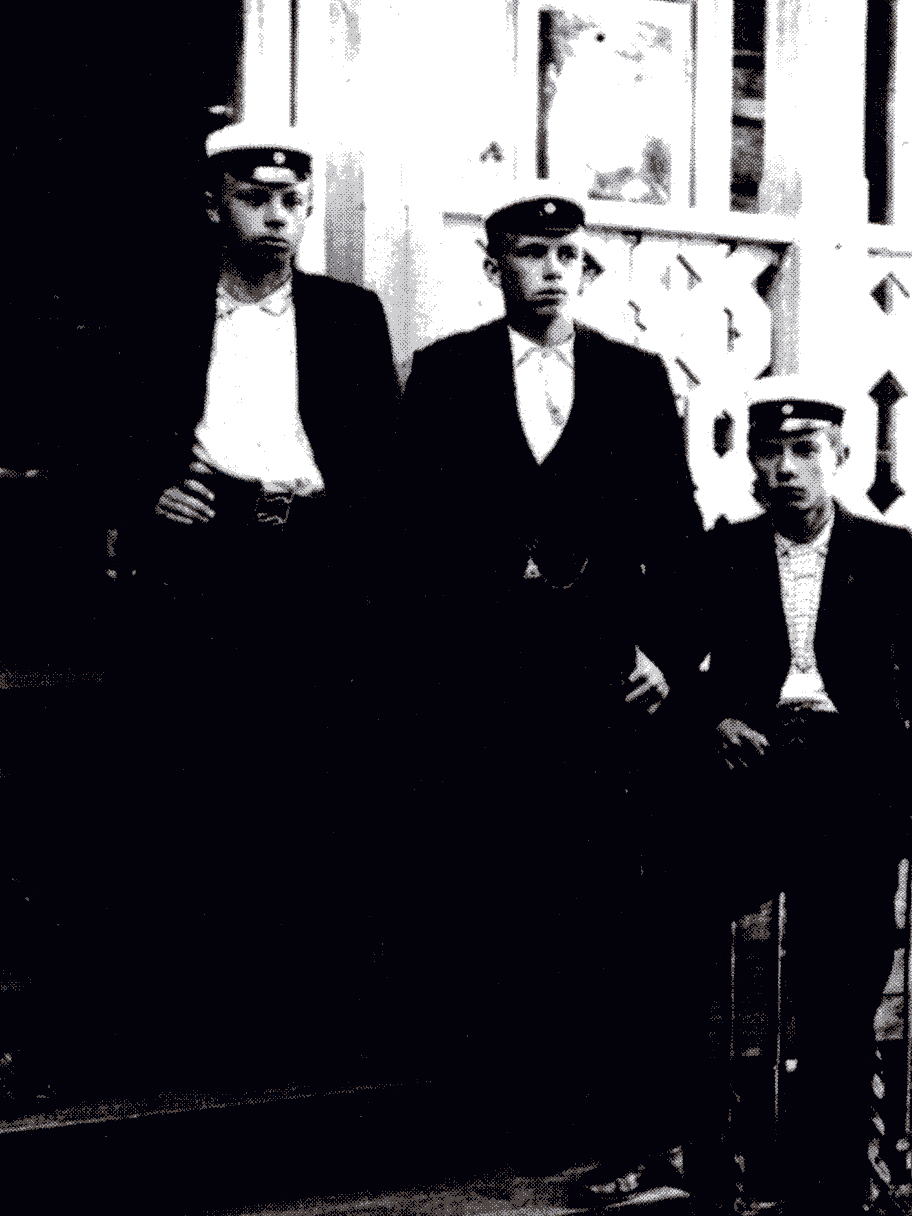 Finnish physicist Gunnar Nordström in 1900 (left) in middle Gunnar's brother Åke Nordström and in right Gunnar's school friend